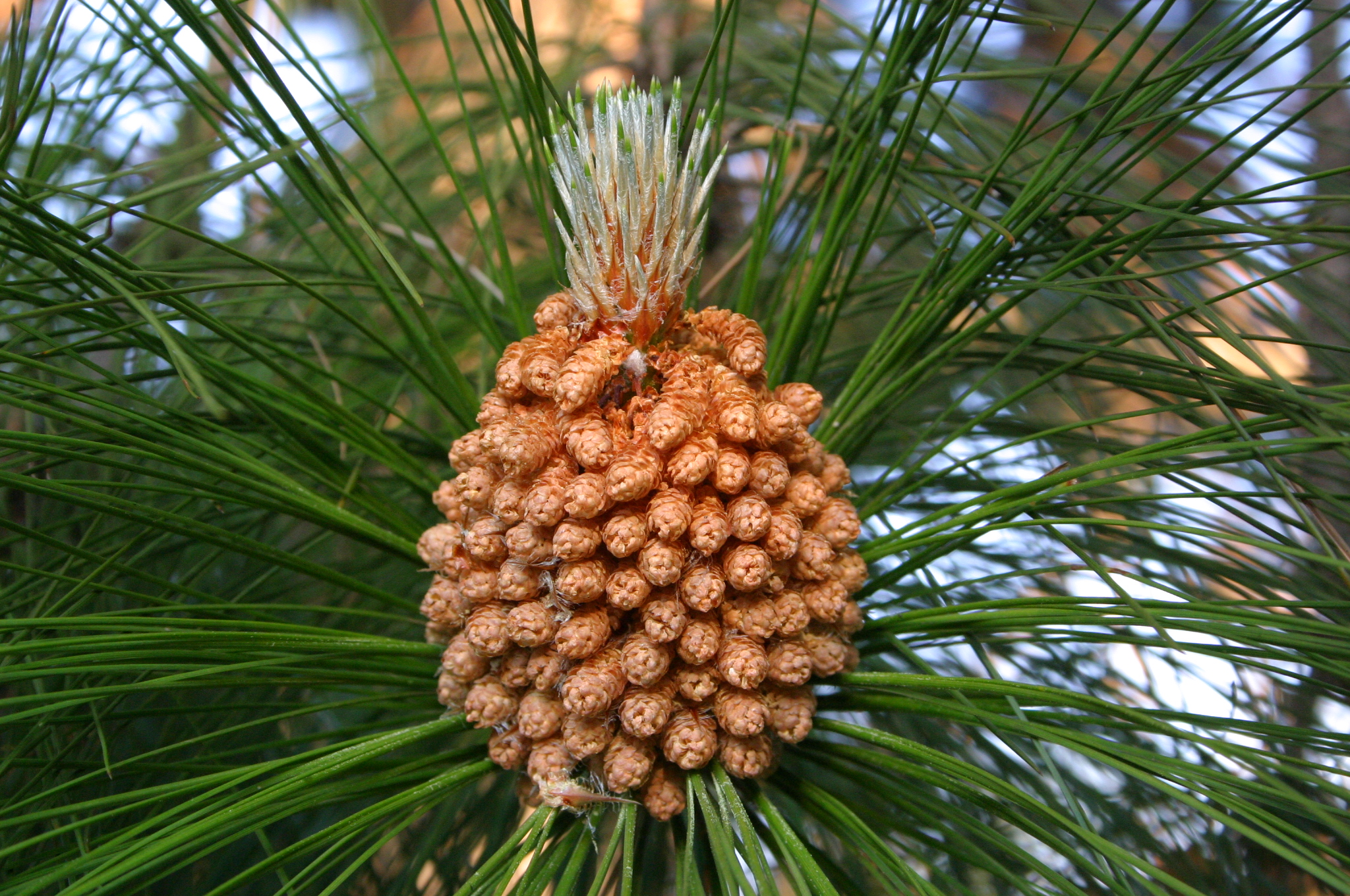 Male cones of Pinus roxburghii, named after William Roxburgh, is a pine native to the Himalaya.